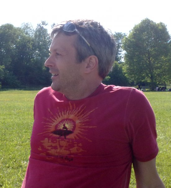 Tristem in 2009